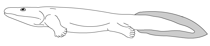 Description: Picture made by mateus zica in 5 march 2007 Mateus Zica Wikipedia User Page is: This image is free to use in anywhere. If you gonna use it, just send me an email telling me where its gonna be used. Thanks. Source: Mateus Zica